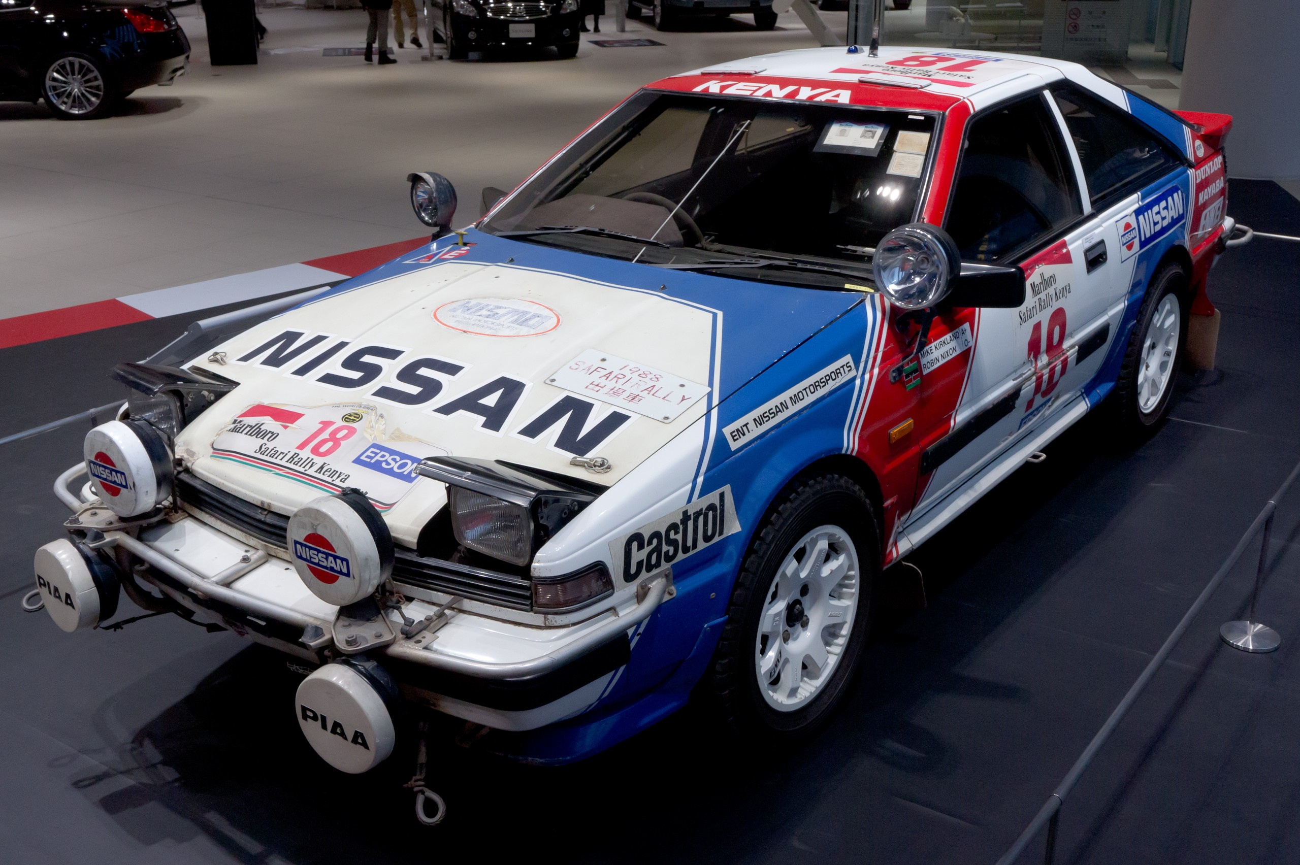 1988 Nissan Silvia 200SX (RVS12); 1988 Safari Rally runner-up car